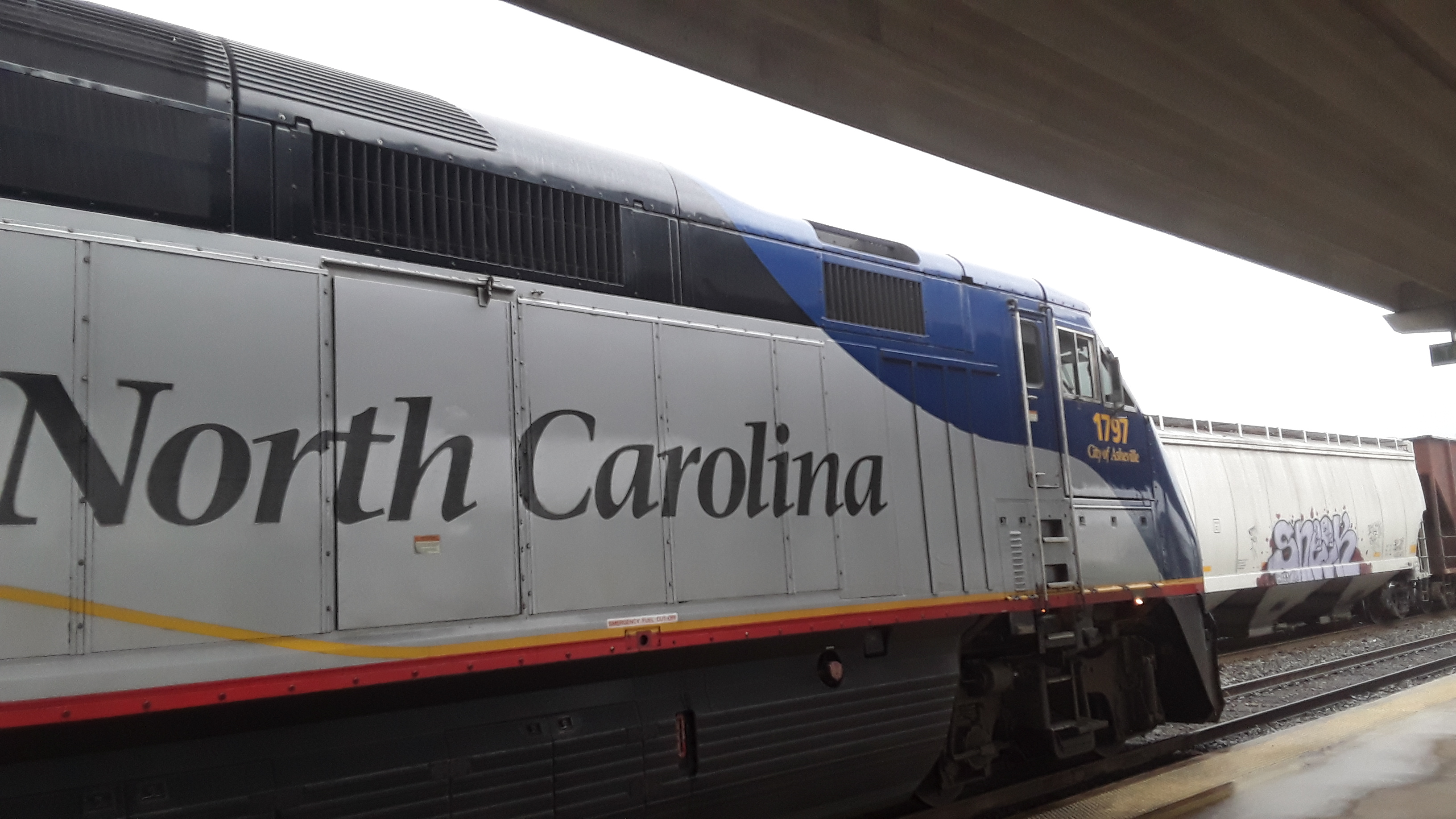 NCDOT engine F59PHI engine City of Asheville waiting in Charlotte after pulling the Piedmont from Raleigh